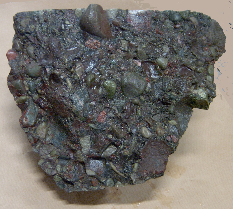 Conglomerate from Smøla, in Norway